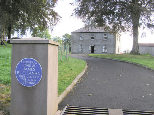 Ancestral home of James Buchanan. James Buchanan: 15th President 1857-61 ... ‘Old Buck’s family were originally from Deroran, near Omagh where the Buchanan Ancestral Home still stands